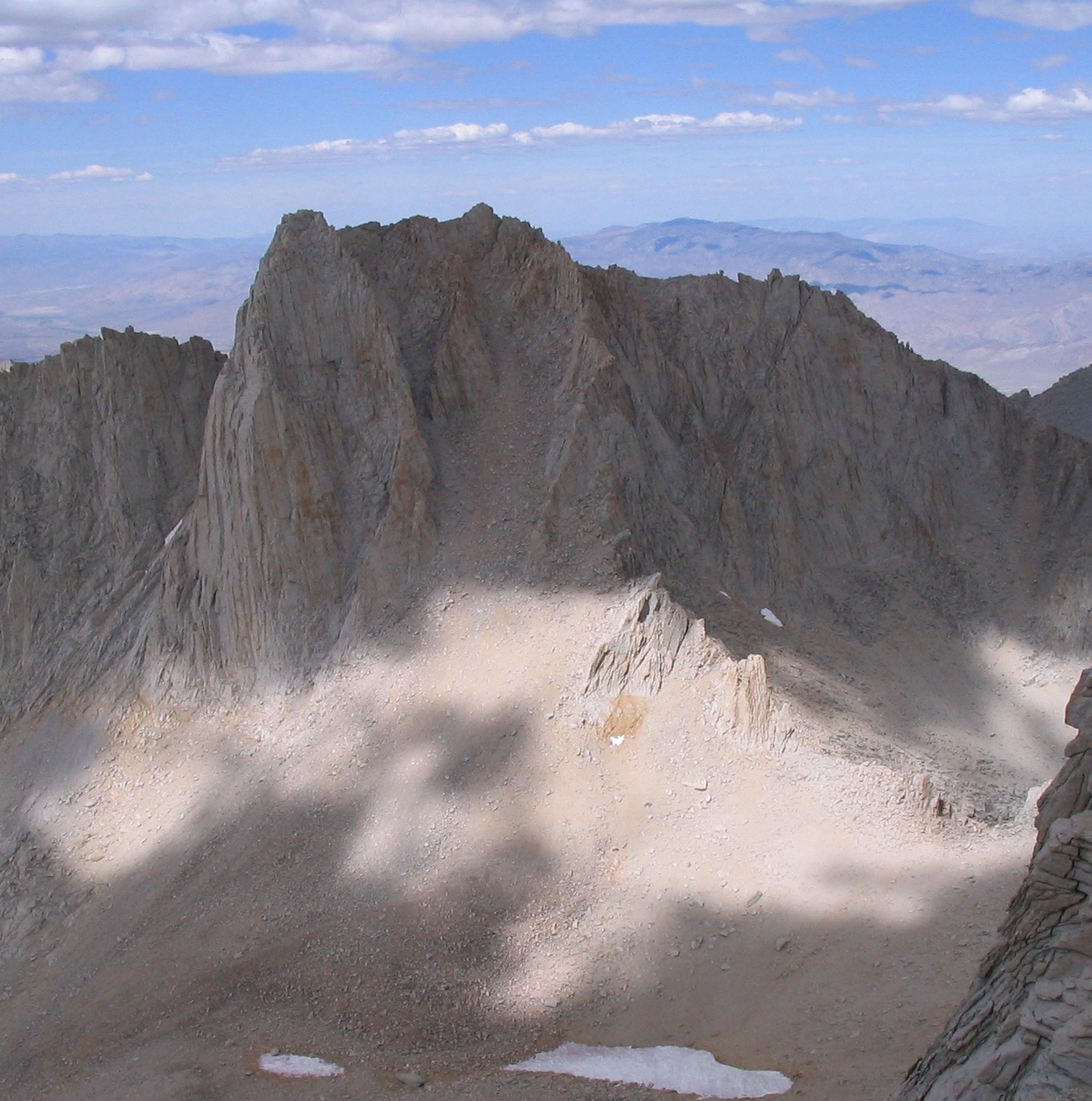 Mount Russell from the south.